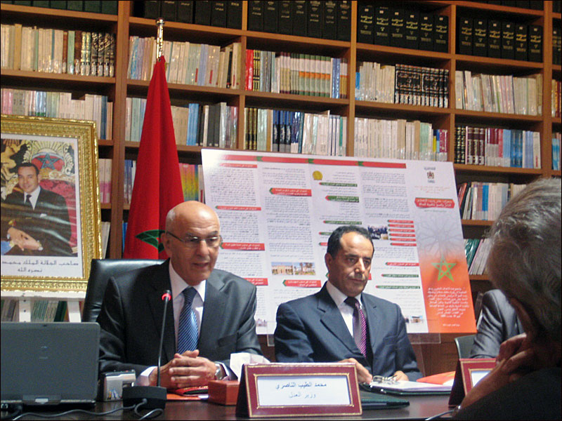 Mohamed Taieb Naciri former Minister of Justice of Morocco